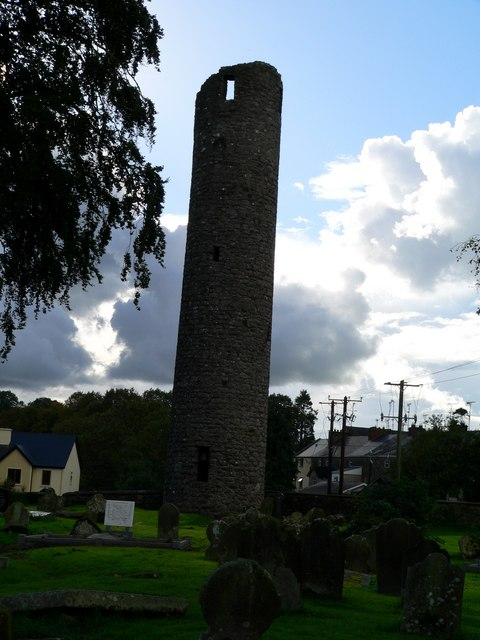 Clones Round Tower Graveyard also contains St. Tighearnach's Grave, a church shaped tomb.